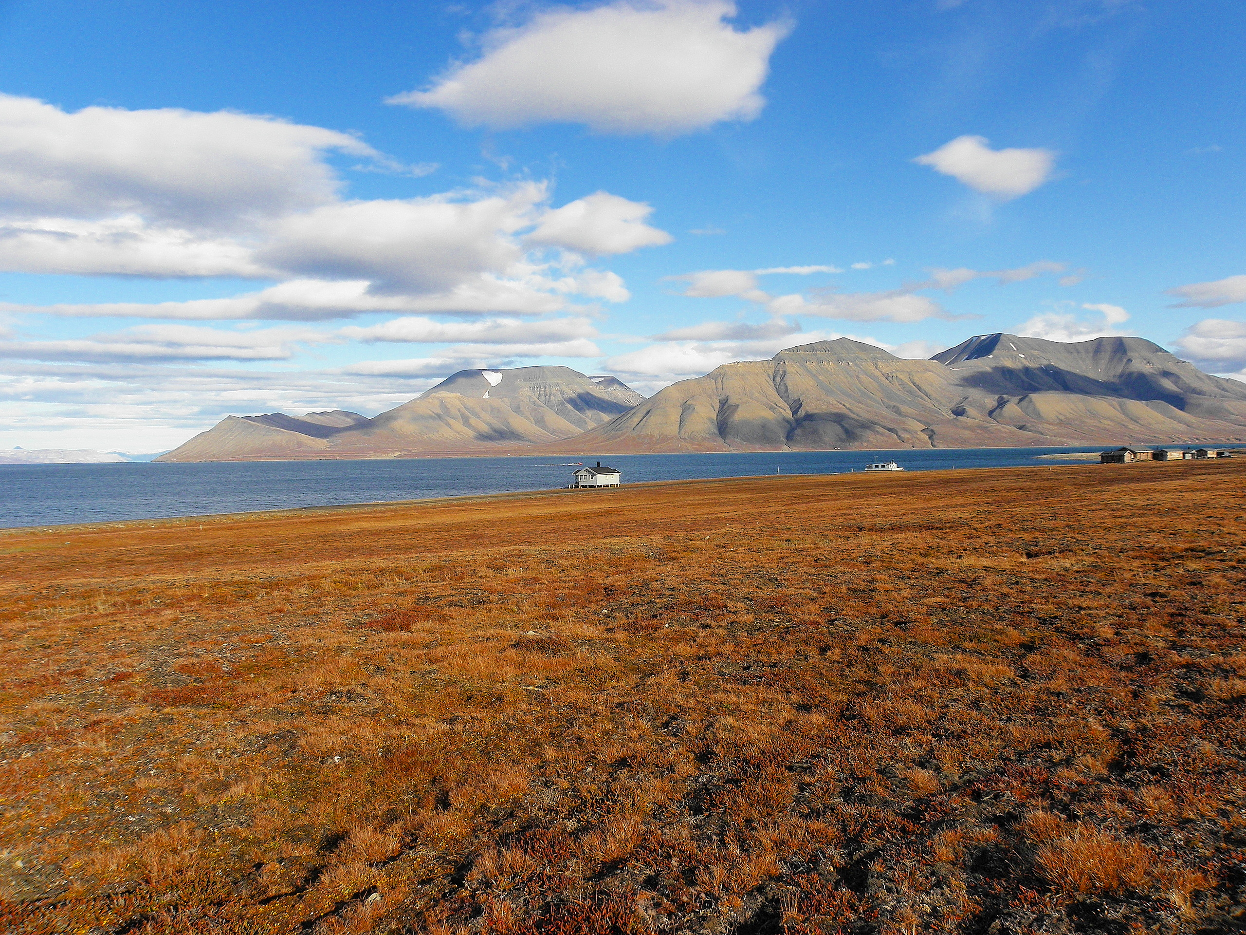 Svalbard tundra landscape in autumn. Not all days where this calm. Adentfjorden with Hjorthfjellet to the right.